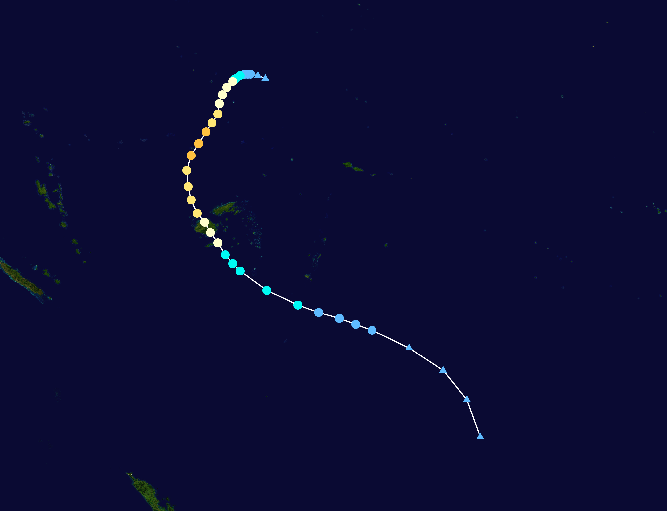 Track map of Cyclone Bebe of the 1972–73 South Pacific cyclone season. The points show the location of the storm at 6-hour intervals. The color represents the storm's maximum sustained wind speeds as classified in the Saffir-Simpson Hurricane Scale (see below), and the shape of the data points represent the nature of the storm, according to the legend below. Saffir–Simpson scale Tropical depression≤38 mph≤62 km/h Category 3111–129 mph178–208 km/h Tropical storm39–73 mph63–118 km/h Category 4130–156 mph209–251 km/h Category 174–95 mph119–153 km/h Category 5≥157 mph≥252 km/h Category 296–110 mph154–177 km/h Unknown Storm type Tropical cyclone Subtropical cyclone Extratropical cyclone / Remnant low / Tropical disturbance / Monsoon depression